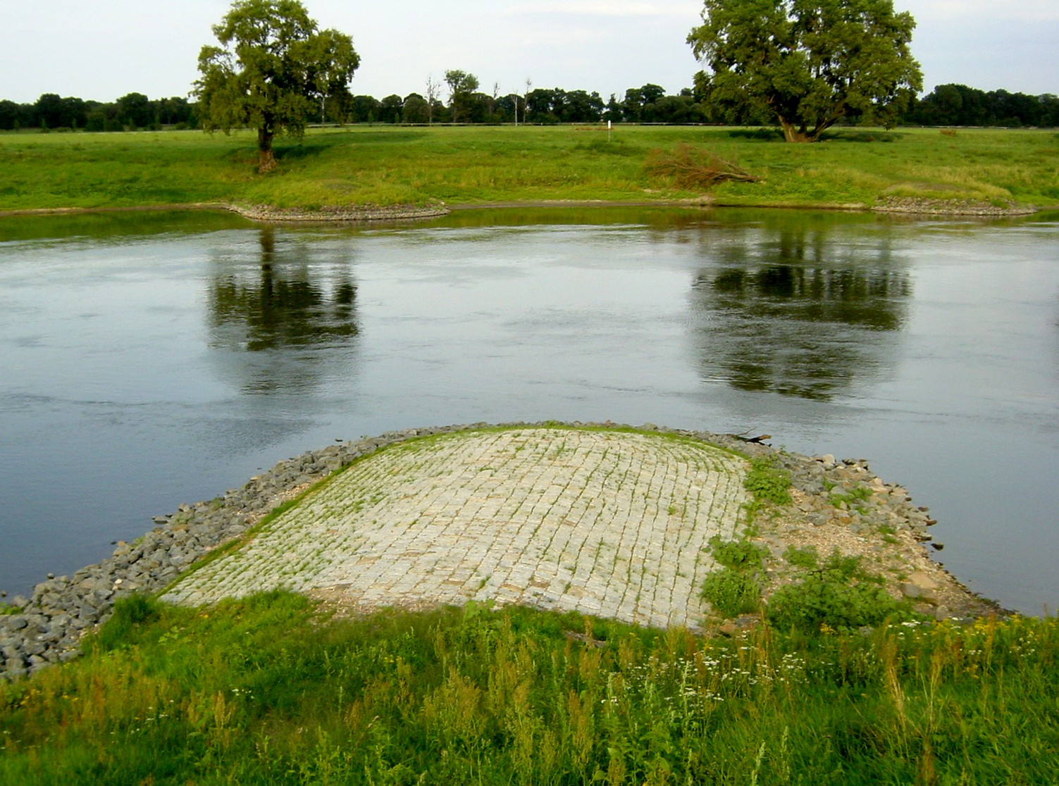 Groyne on river Elbe near Torgau, Germany. River flows from right to left.